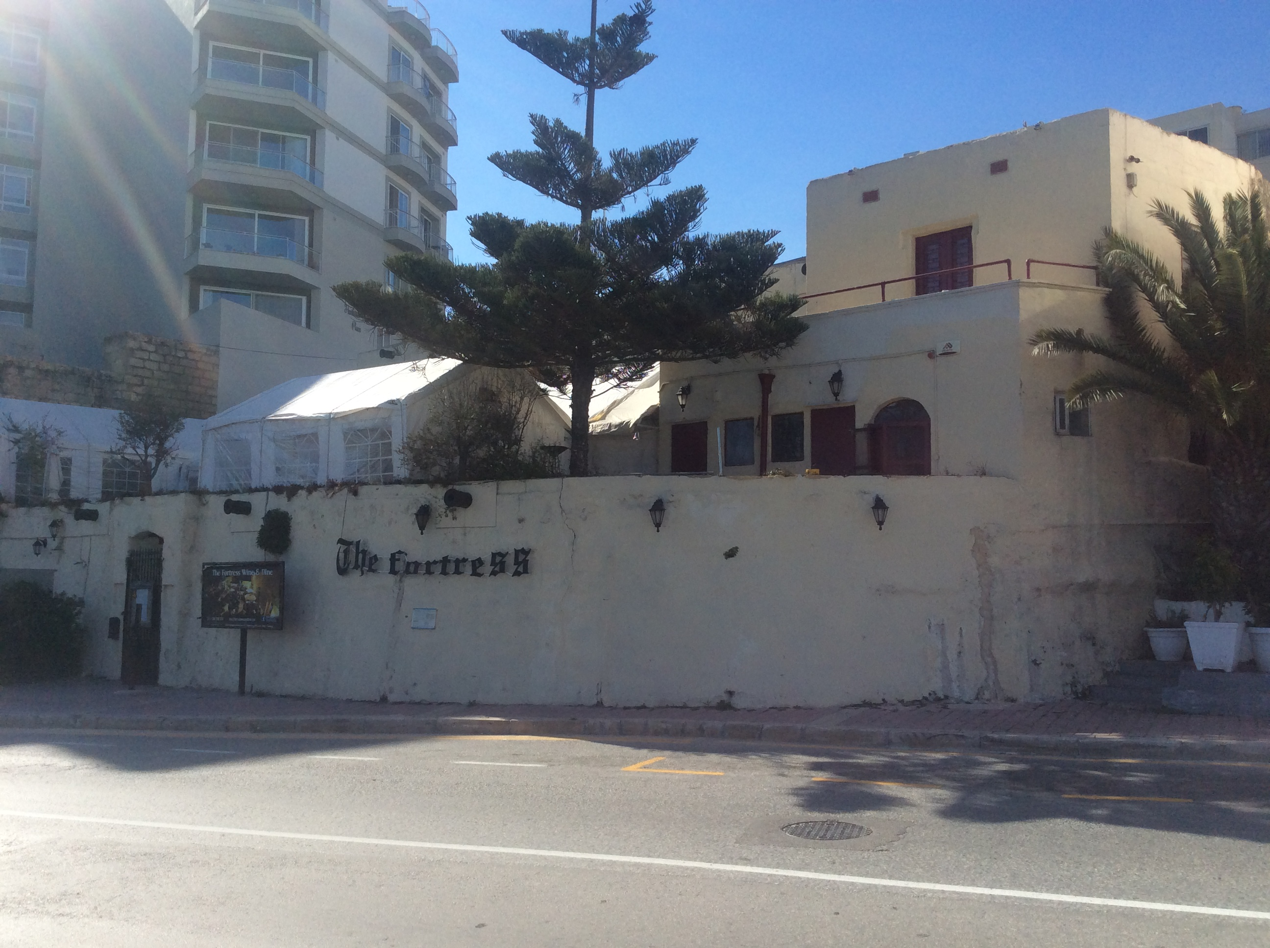 Allias Battery, Xemxija